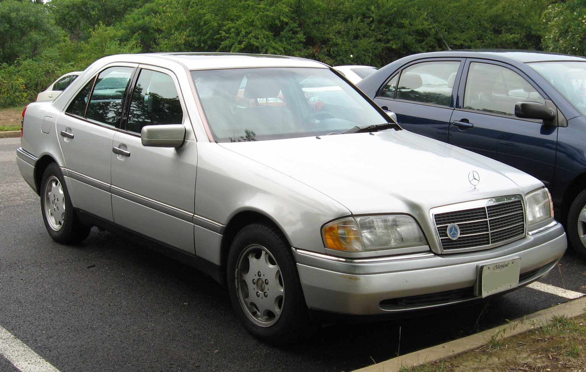 1993-1997 Mercedes-Benz C-Class photographed in USA.